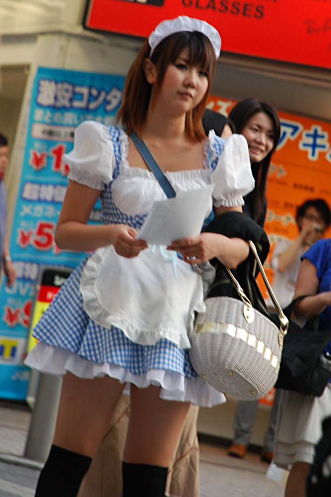 Maid giving flyers in front of Akihabara station